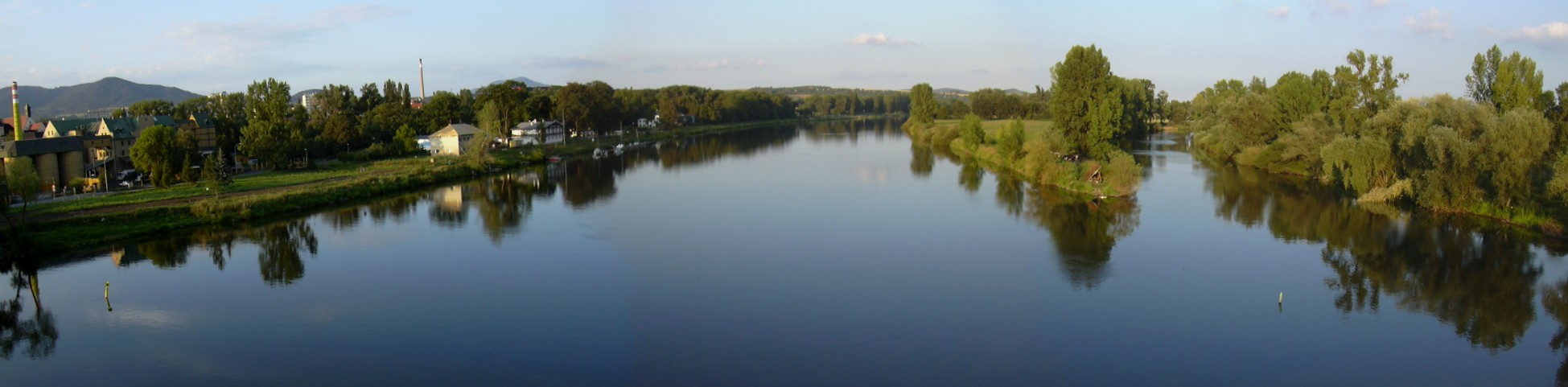 Panoramic view of confluence of the Elbe and the Ohře in Litoměřice. A view upstream from the Tyrš Bridge, Elbe in the left, Ohře in the right. The distance from the observer to tip of te land between boht rivers is some 120 m, width of the Ohře about 45 m and width of the Elbe about 135 m.